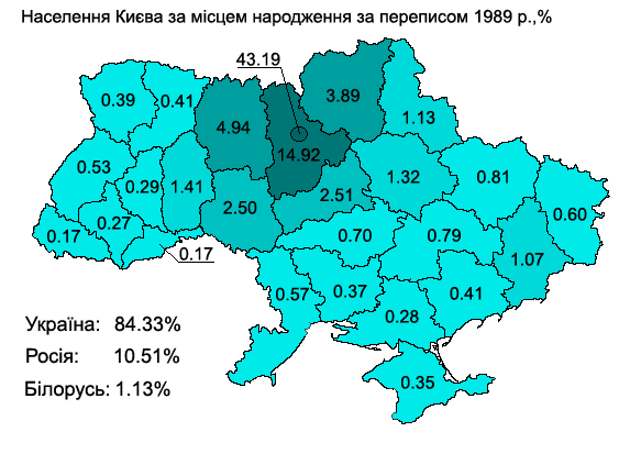 Place of birth of Kyiv's population according to 1989 census